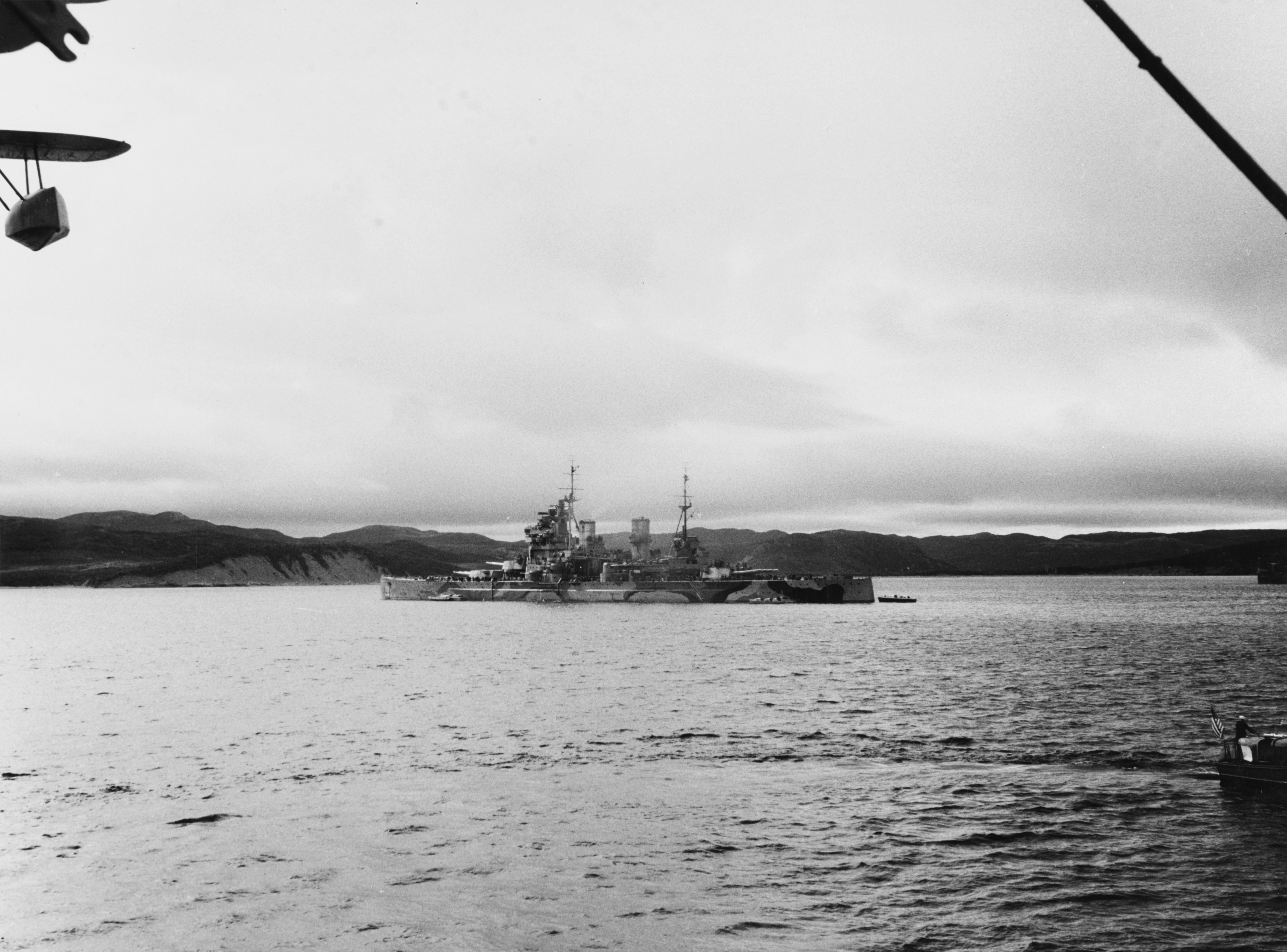 Atlantic Charter Conference, 10-12 August 1941: the Royal Navy battleship HMS Prince of Wales (53) off Argentia, Newfoundland, after bringing Prime Minister Winston Churchill across the Atlantic to meet with U.S. President Franklin D. Roosevelt.